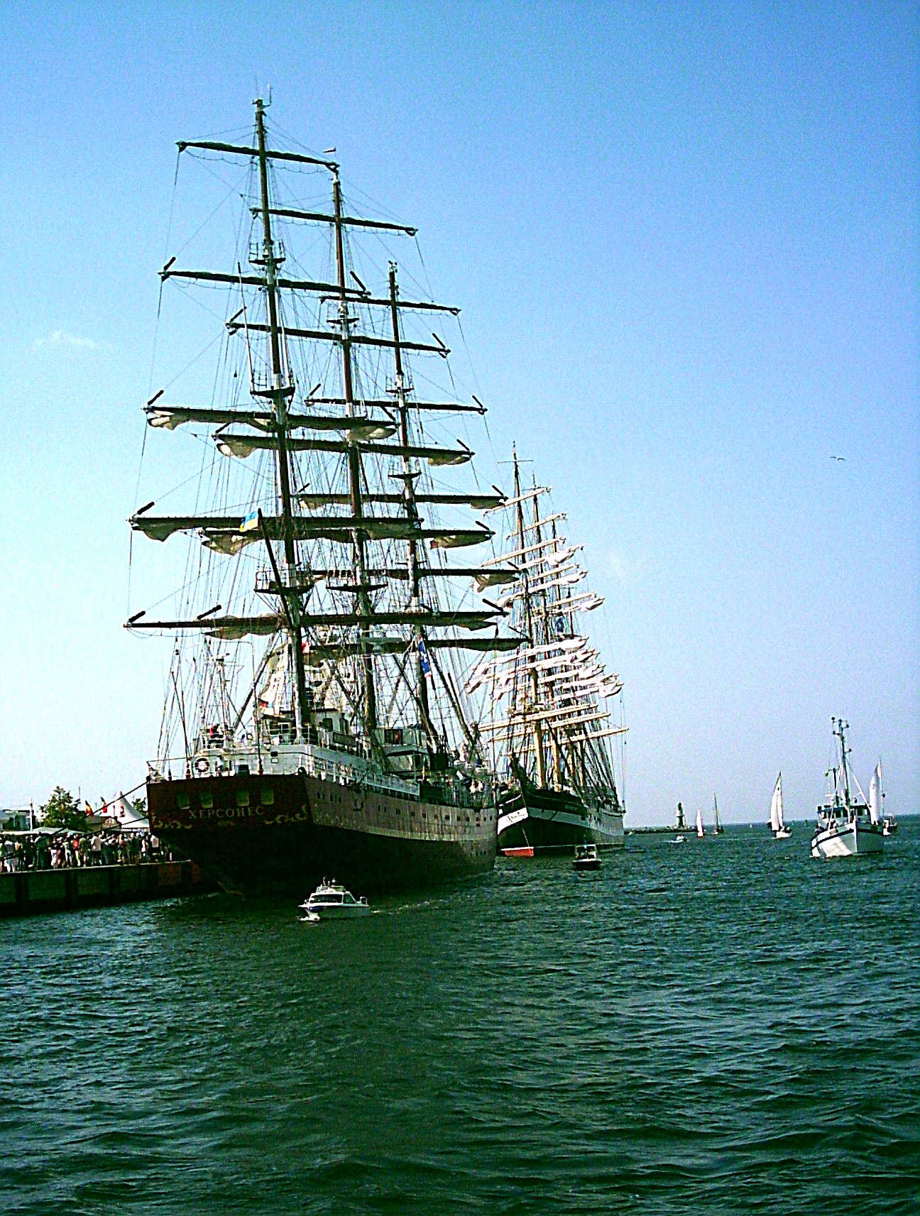 Two large tall ships the Hanse Sail in Rostock, summer 2004.